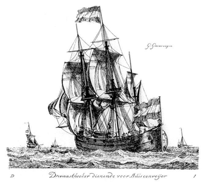 Three-masted hoeker working in convoy with "bushes" (a type of Dutch fishing boat). The hoeker was armed, and its presence was for defence. (Shipbuilding from its Beginnings vol.1, 1913, p. 96)